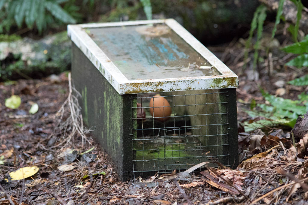 A DOC 200 trap on Pigeon Island in Dusky Sound.